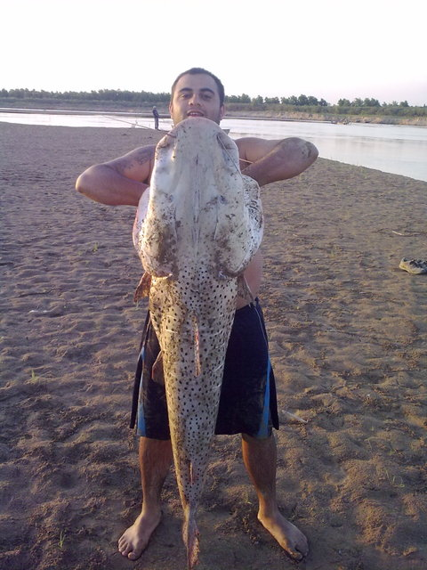 Surubí en el Río Bermejo. Orán, provincia de Salta